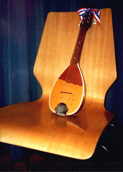 Bisernica, a Croatian instrument used in tamburica ensembles. Size compared to that of a chair.